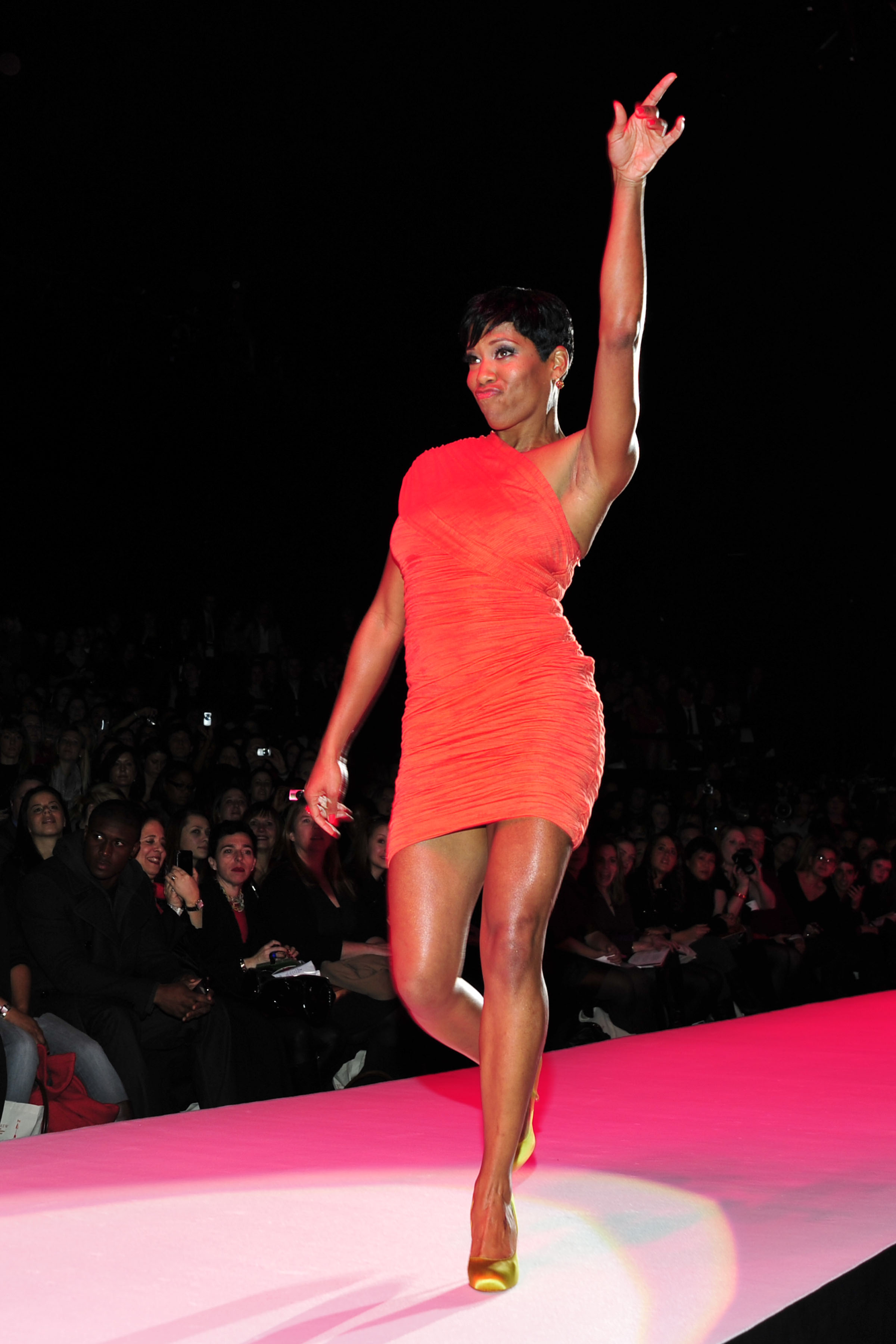 The Heart Truth® is a national awareness campaign for women about heart disease sponsored by the National Heart, Lung, and Blood Institute (NHLBI), part of the National Institutes of Health, U.S. Department of Health and Human Services (HHS). The Red Dress®, introduced by the NHLBI in 2002, is the national symbol for women and heart disease awareness. Visit for information on women and heart disease. Regina King== HEART TRUTH RED DRESS 2010 Collection== NY Public Library, NYC== February 11, 2010== © Patrick McMullan== Photo - PATRICK MCMULLAN/PatrickMcMullan.com== == ®, TM The Heart Truth, its logo and The Red Dress are trademarks of HHS. Participation by Mercedes-Benz Fashion Week, Diet Coke, Swarovski, Tylenol, St. Joseph's Aspirin, Bobbi Brown, and Brian Atwood does not imply endorsement by HHS.